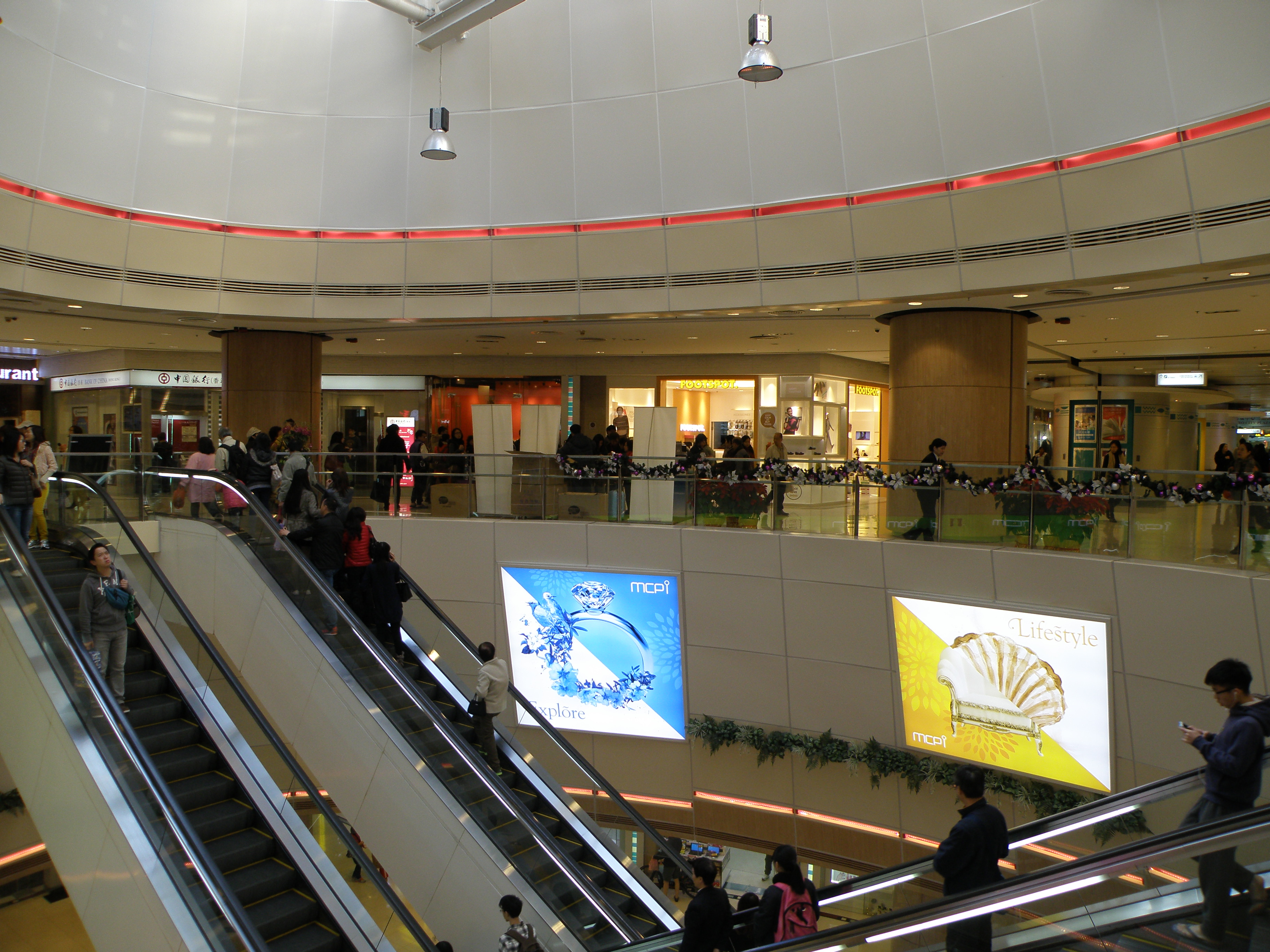 Metro City Plaza in Tseung Kwan O, Hong Kong.